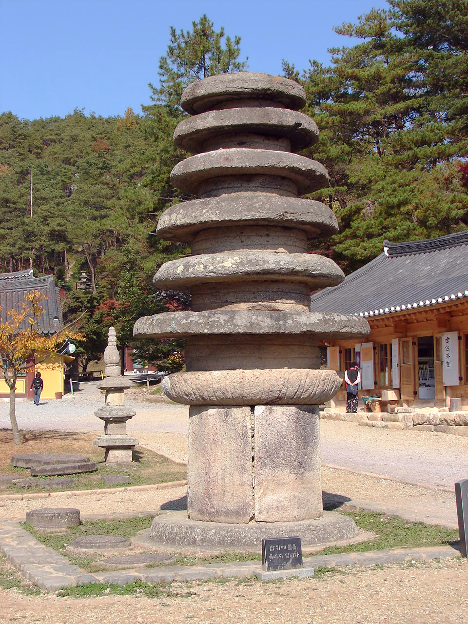 Wonhyeong Dacheung Seoktap (multi-storied cylindrical pagoda at Unjusa) at Unjusa near Gwangju (Hwasun/Yongyang)